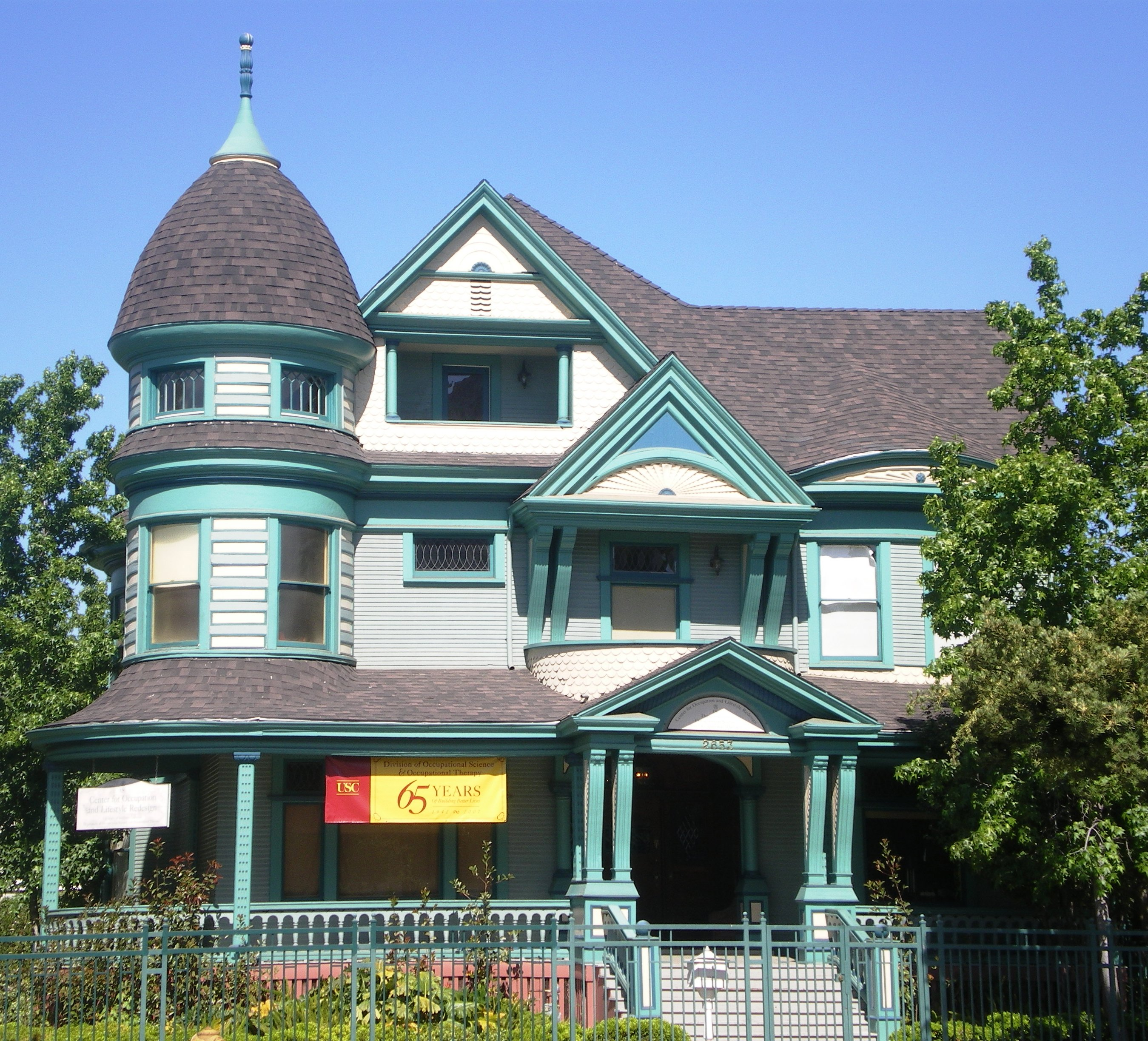 USC Center for Occupation and Lifestyle Redesign, 2653 Hoover, Los Angeles, California